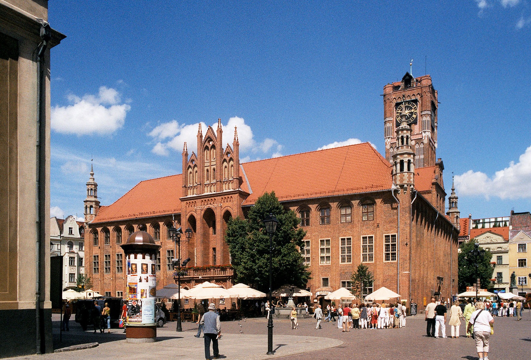 Toruń, Old Town Hall seen from north